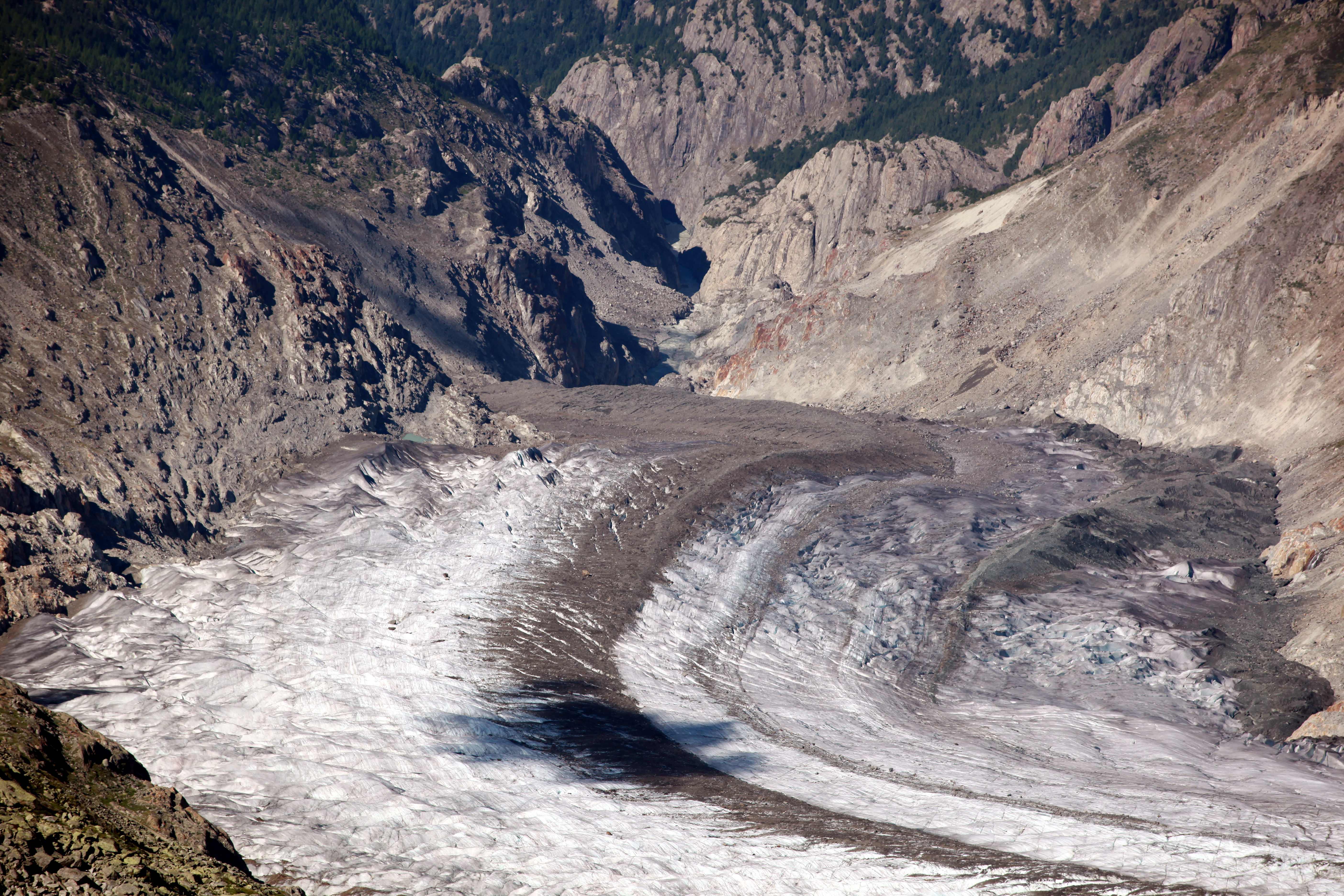 Glacier tongue of the Aletschgletscher. Taken from the Eggishorn. Notice the suspension bridge at the end of the valley.